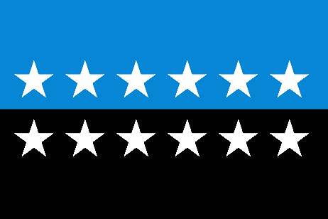 Flag of the former European Coal and Steel Community, twelve star version used since 1986 onwards.